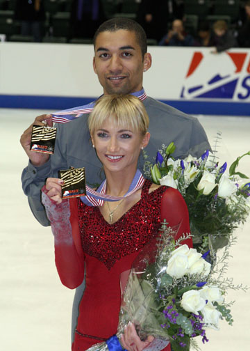 SAVCHENKO_SZOLKOWY at the 2008 Skate America.